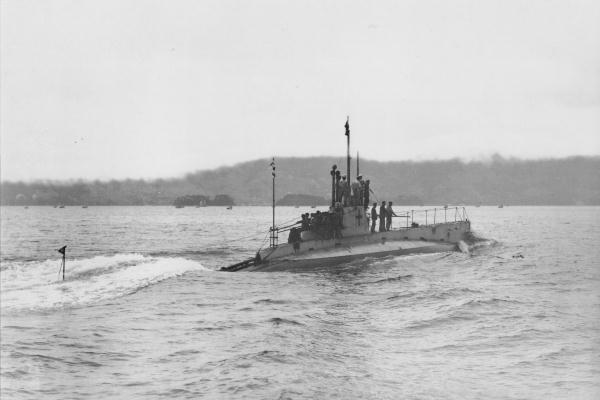 Japanese submarine No.10 (C2-class), renamed to HA-3 in 1923.